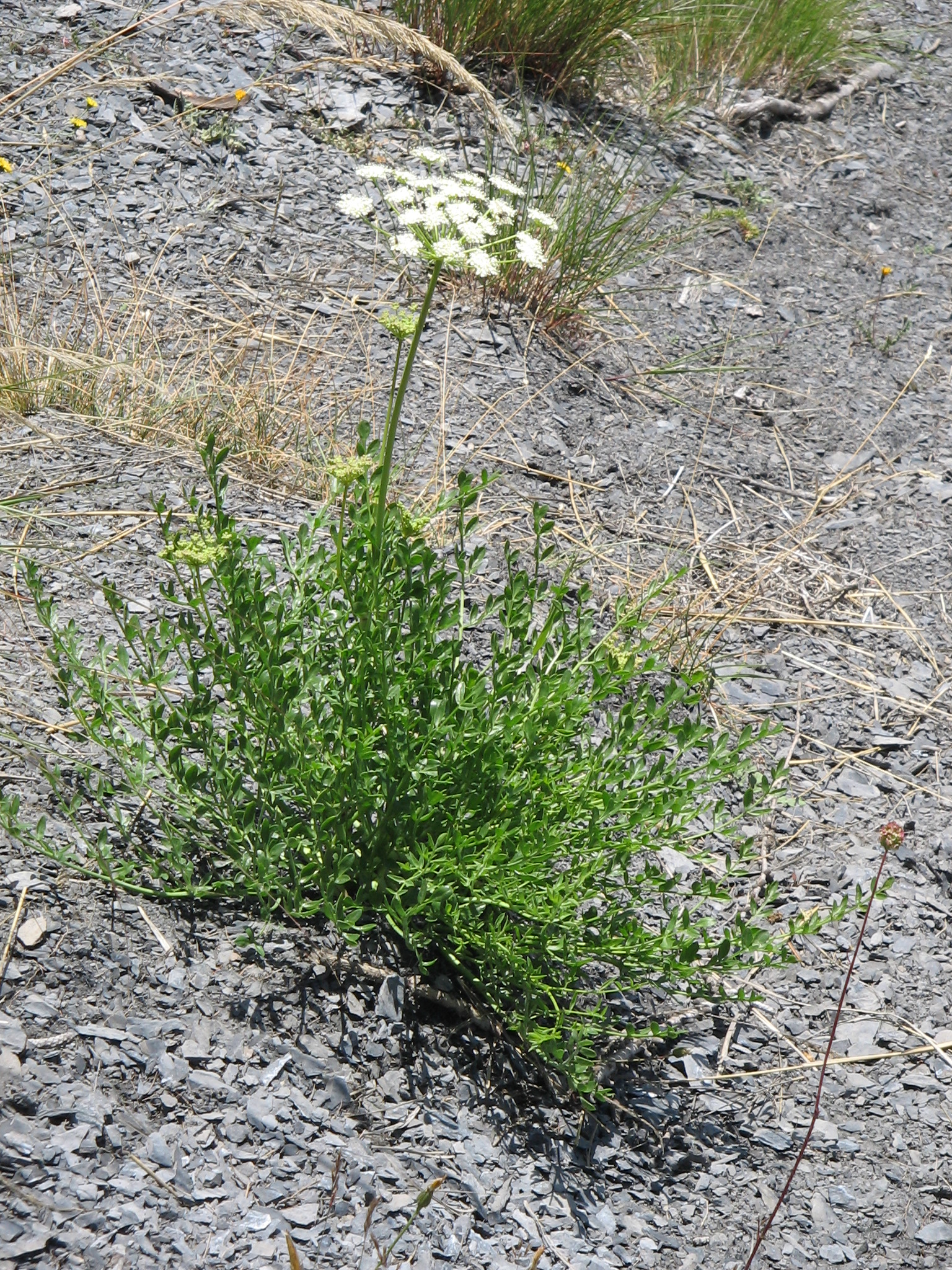 Laserpitium gallicum